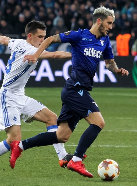 Luis Alberto Romero